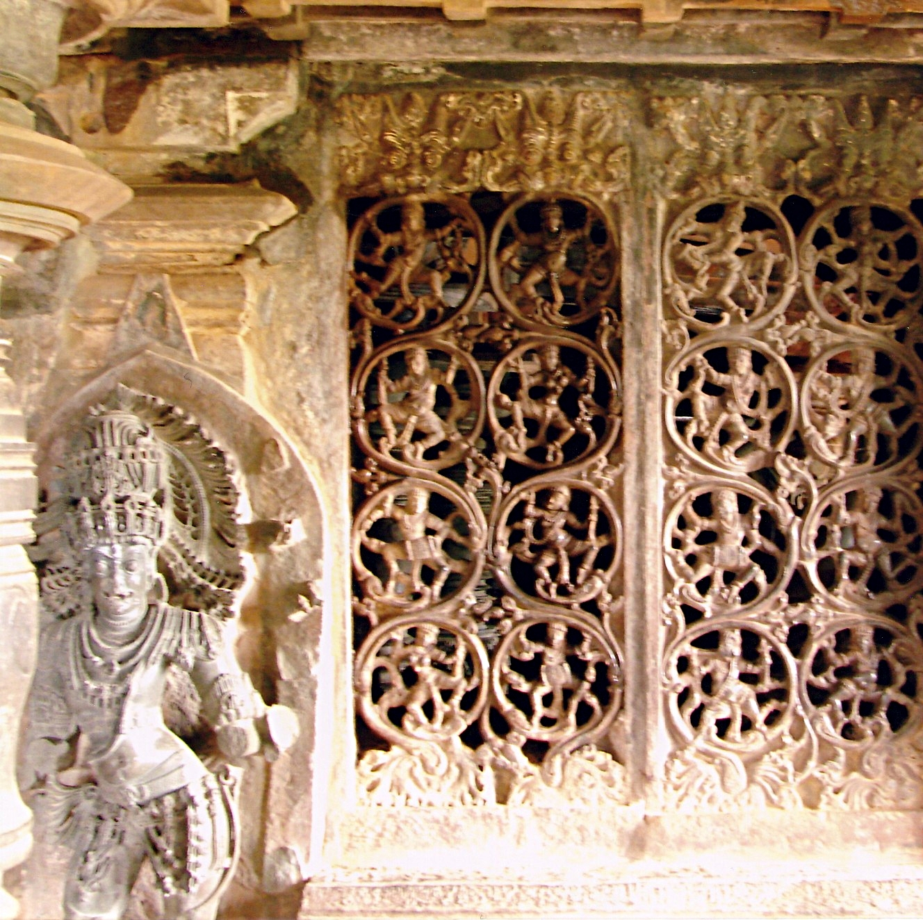 Photograph taken by self (Dinesh Kannambadi) at Tripurantakesvara temple in Balligavi in Shimoga district, Karnataka state, India in July 2006